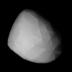 3D convex shape model of 1741 Giclas, computed using light curve inversion techniques. J. Hanuš, J. Ďurech, M. Brož, B. D. Warner (June 2011). "A study of asteroid pole-latitude distribution based on an extended set of shape models derived by the lightcurve inversion method". Astronomy and Astrophysics 530: A134. ISSN 0004-6361. arXiv